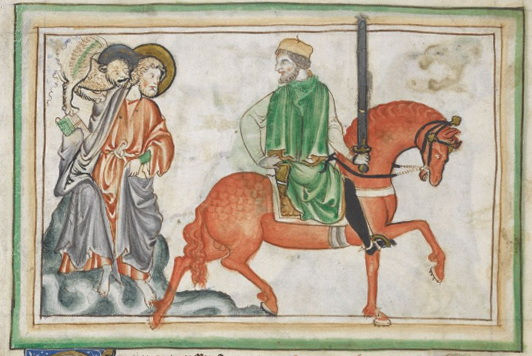 Folio 7v of an Apocalypse manuscript (Add MS 35166). The artist matched each horseman with an evangelist. The (winged) lion is the symbol of Mark.